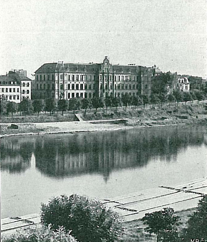 historical view of Heidelberg